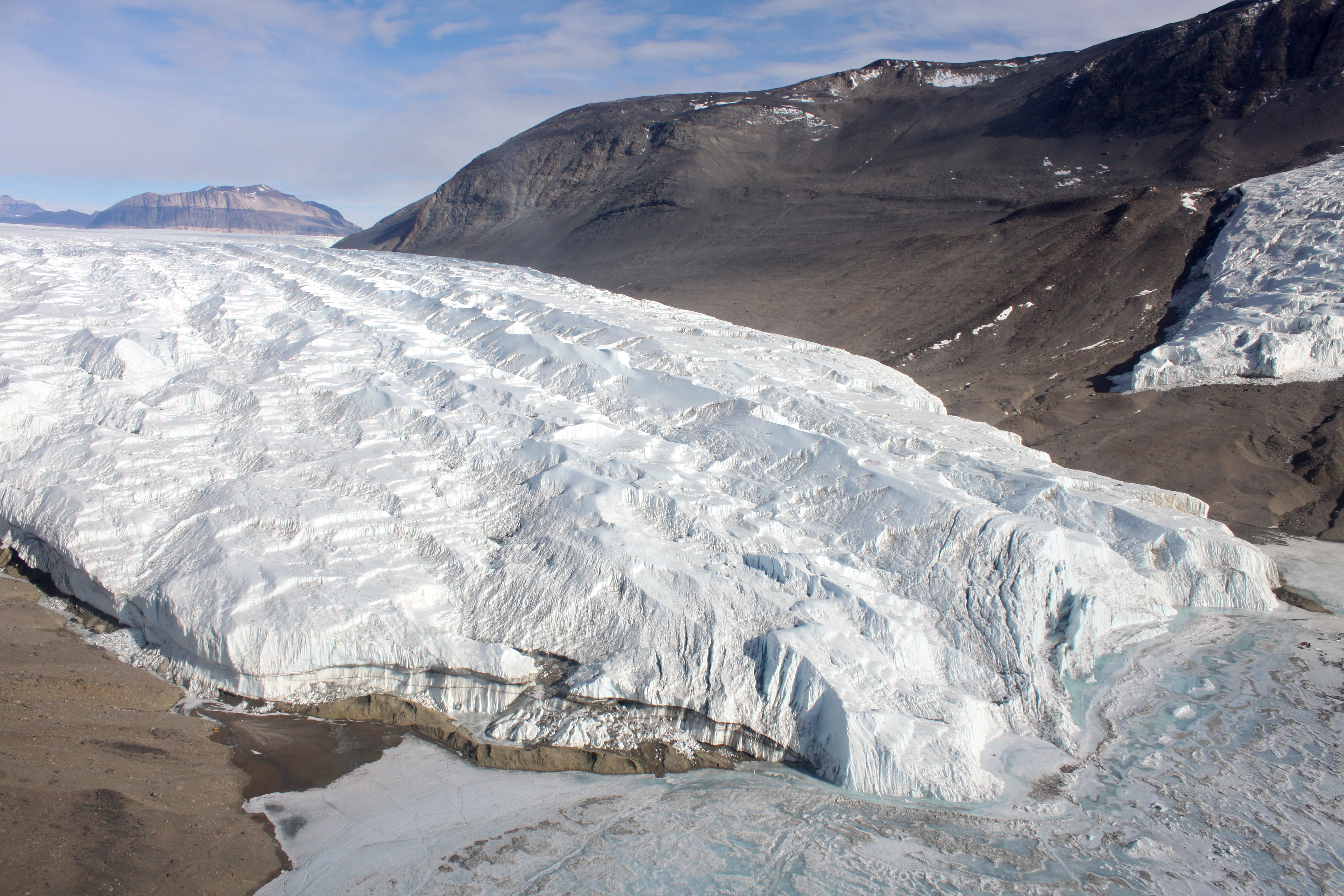 Helicoptering the Dry Valleys